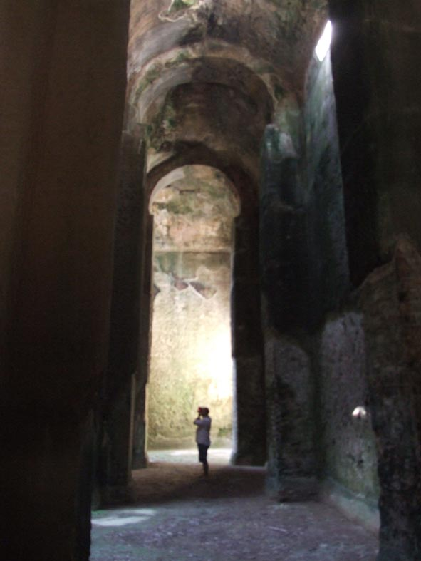 Piscina Mirabilis, Bacoli, Campania, Italy